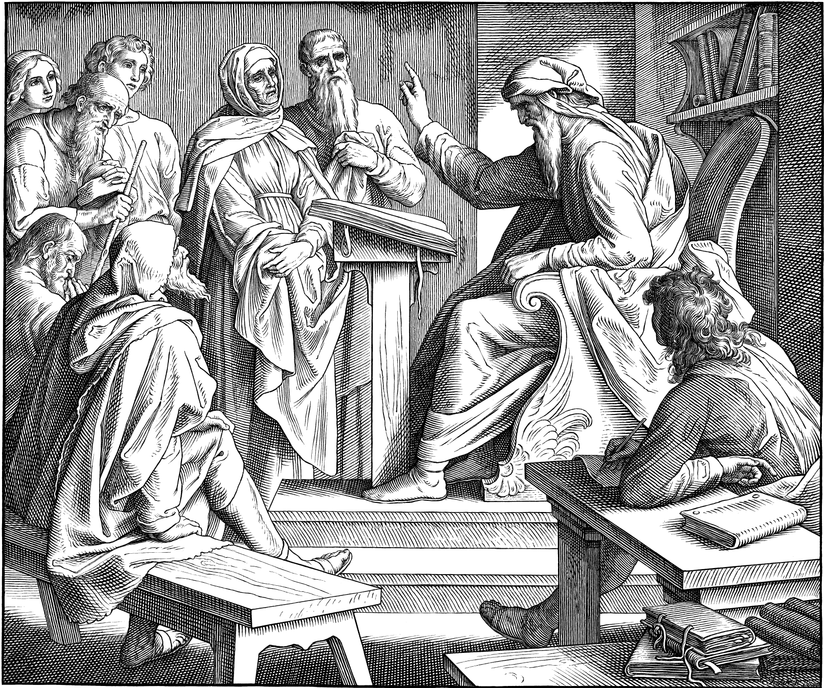 Woodcut for "Die Bibel in Bildern", 1860.